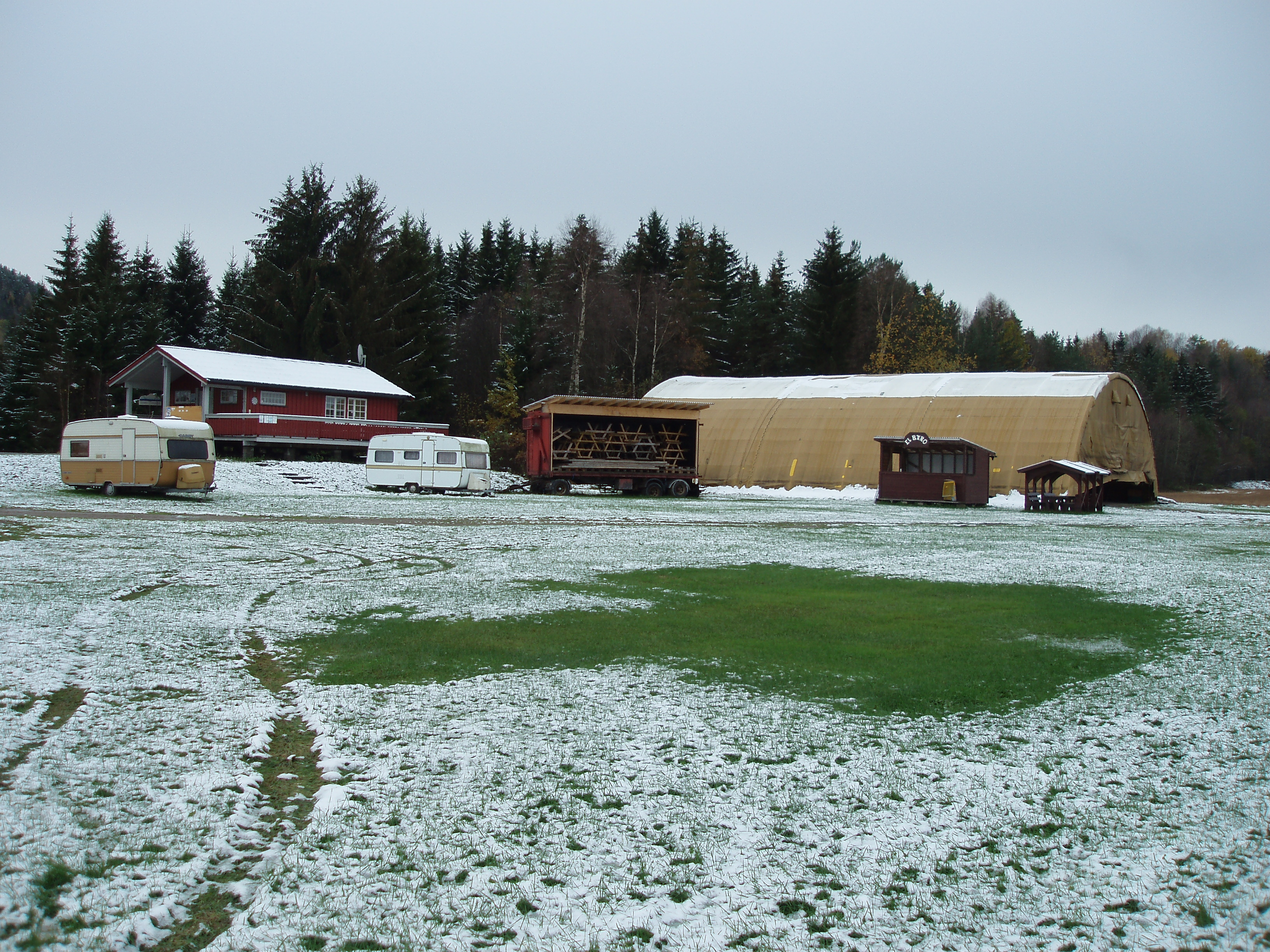 Lunde Airport, Nome in Nome municipality in Telemark county in Norway. The picture shows the club house and the hangar.